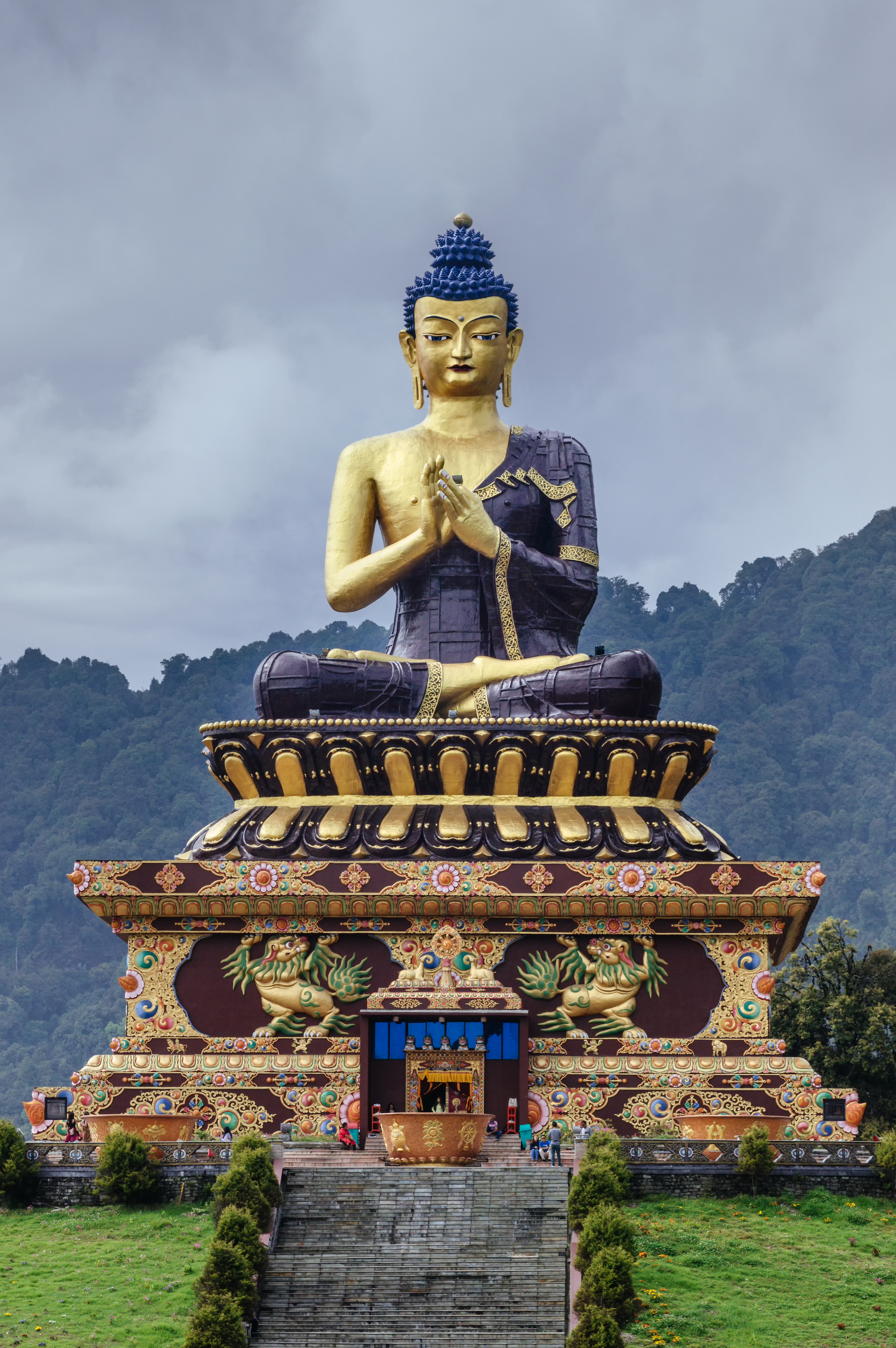 Large Gautama Buddha statue in Buddha Park of Ravangla, Sikkim - Front Telephoto Shot